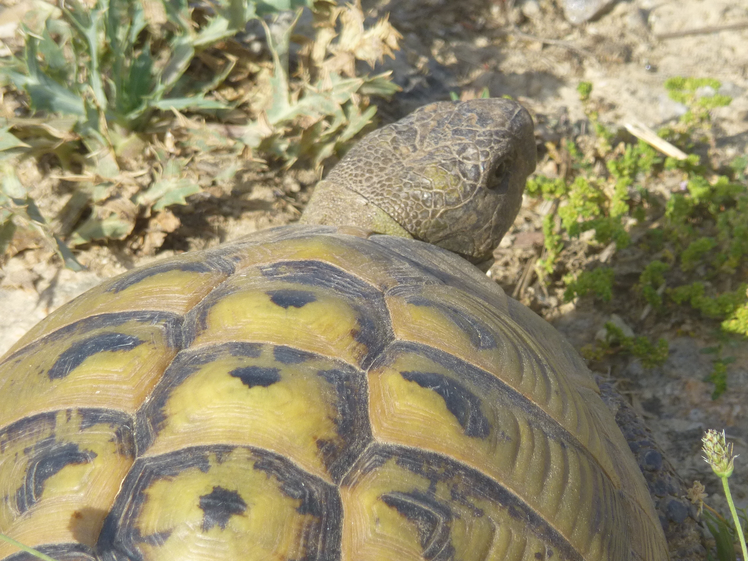 A tortoise walking across the road between Crnovec and Streževo dam (off Macedonian Hwy P1305, between Demir Hisar and Bitola)